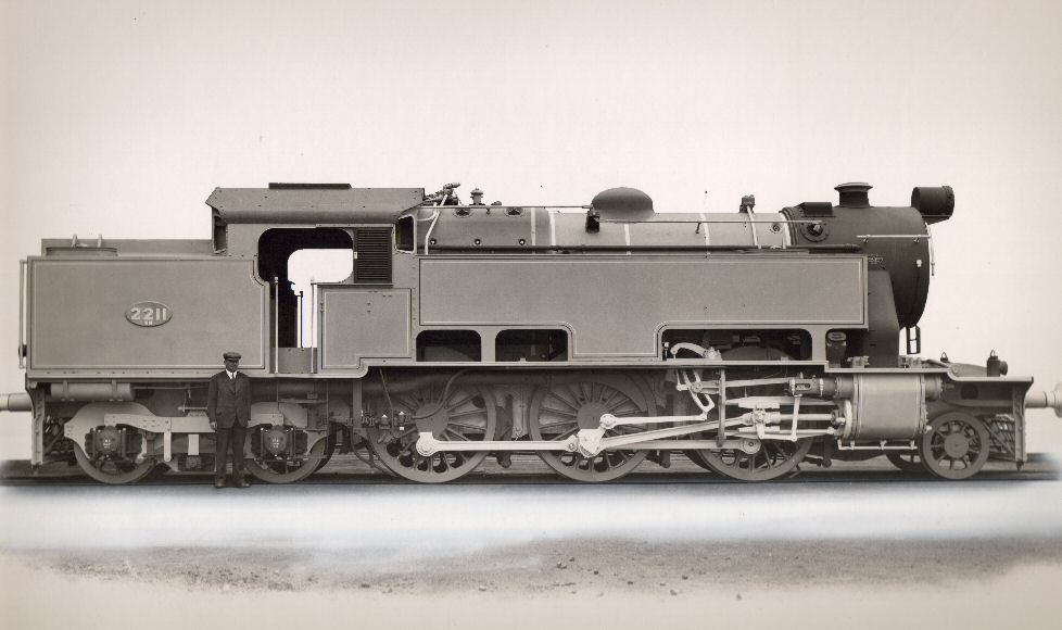 Vulcan Foundry works photo of Indian locomotive class WM tank locomotive no 2210 (side view).